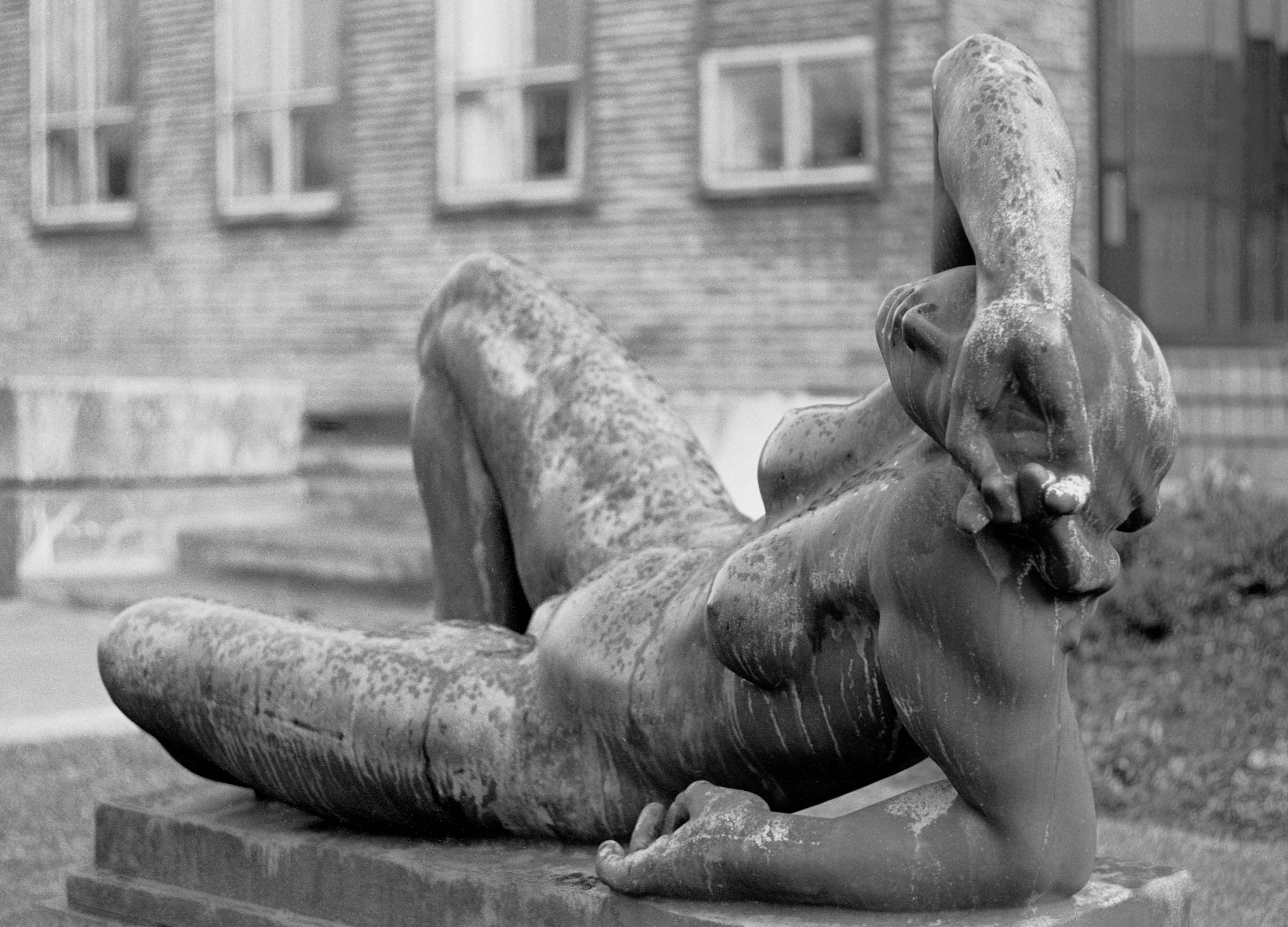 Kai Nielsen: Leda uden Svanen (Leda without the swan), 1920. Bronze 1937.